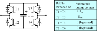 A submodule of a Modular Multi-Level Converter (MMC) using the "Full-Bridge" arrangement